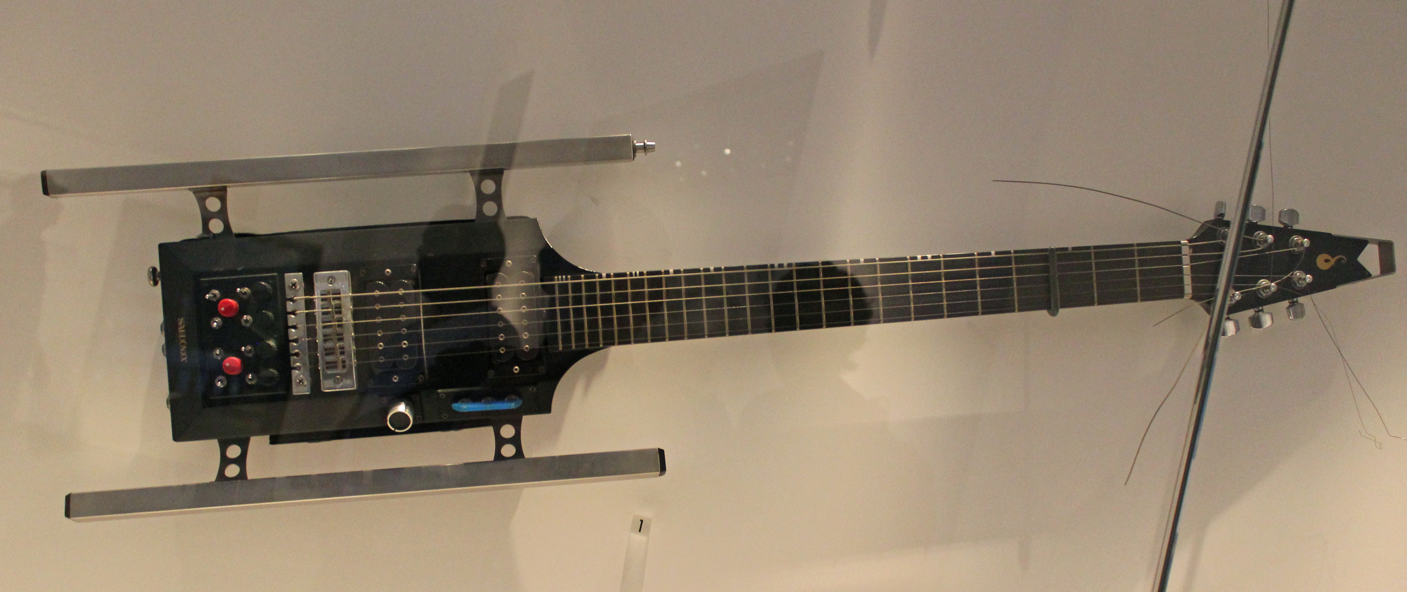 One of about twenty of this model made by Jeff Levin in NYC and used by Lennon during the "Double Fantasy" album sessions. Image intentionally out of vertical to avoid including copyright material.